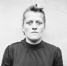 Hildegard Lohbauer: sentenced to 10 years imprisonment (Bergen-Belsen-trial).